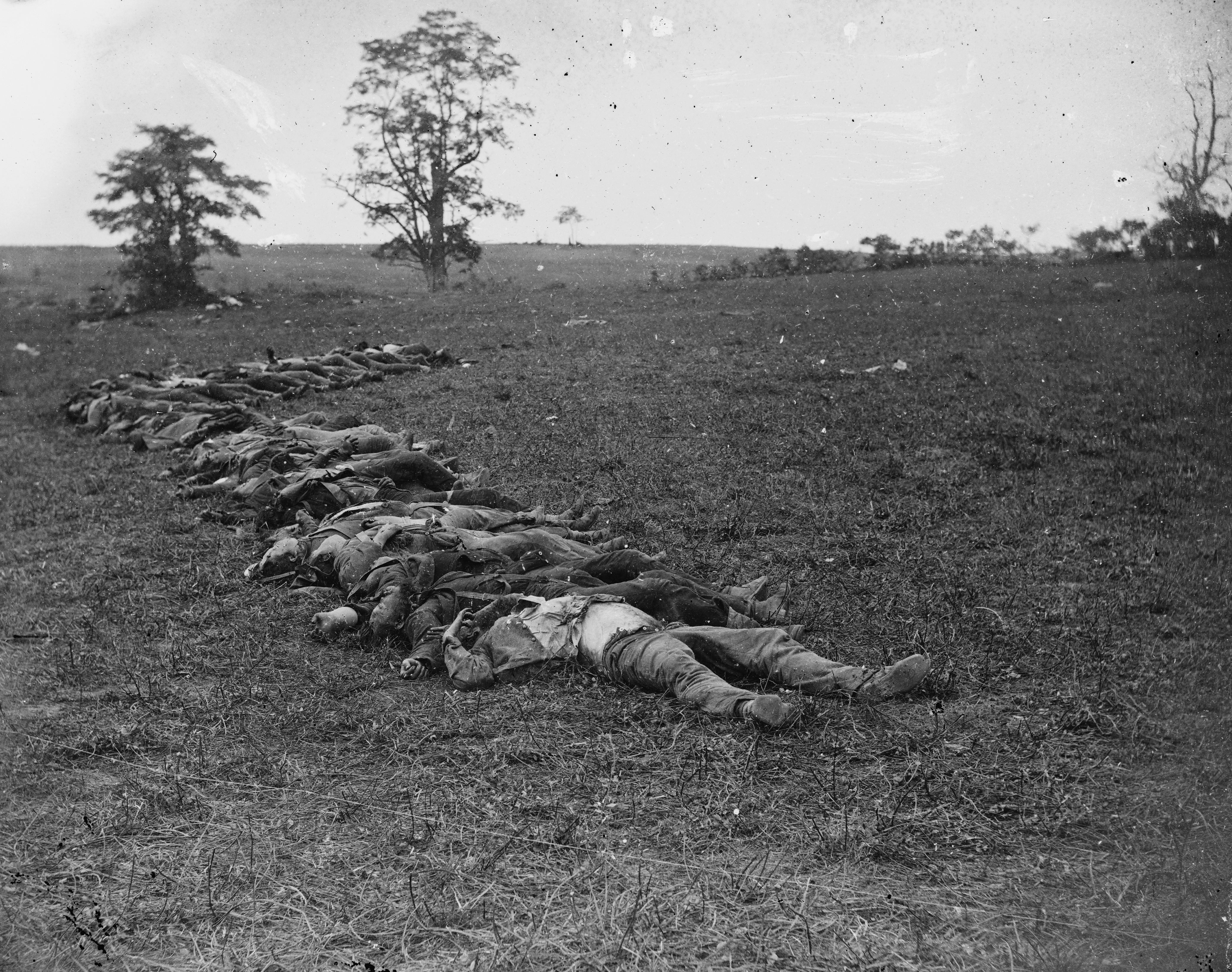 Bodies of Confederate dead gathered for burial after the Battle of Antietam, September 1862